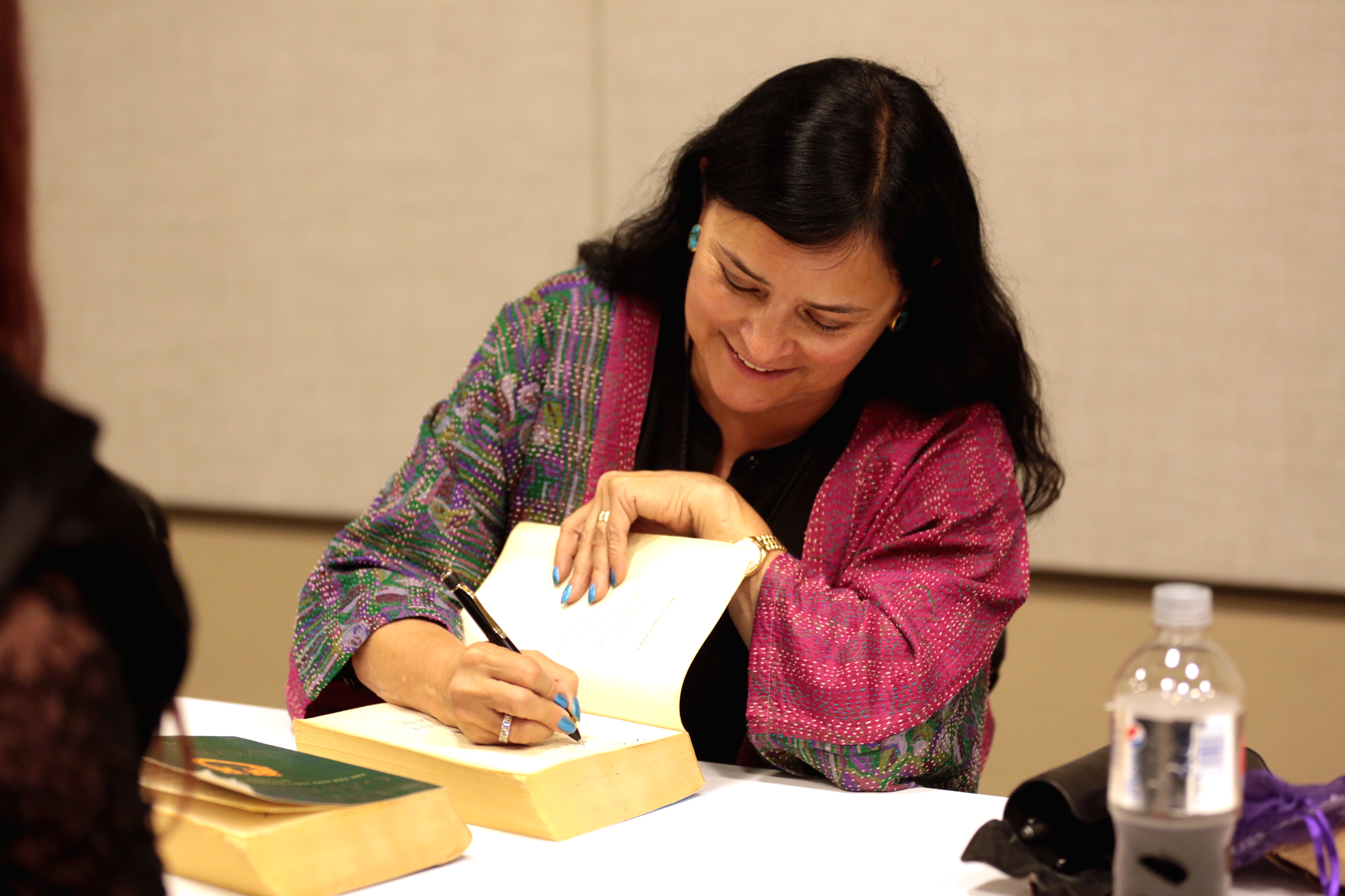 Diana Gabaldon speaking at the 2017 Phoenix Comicon in Phoenix, Arizona.